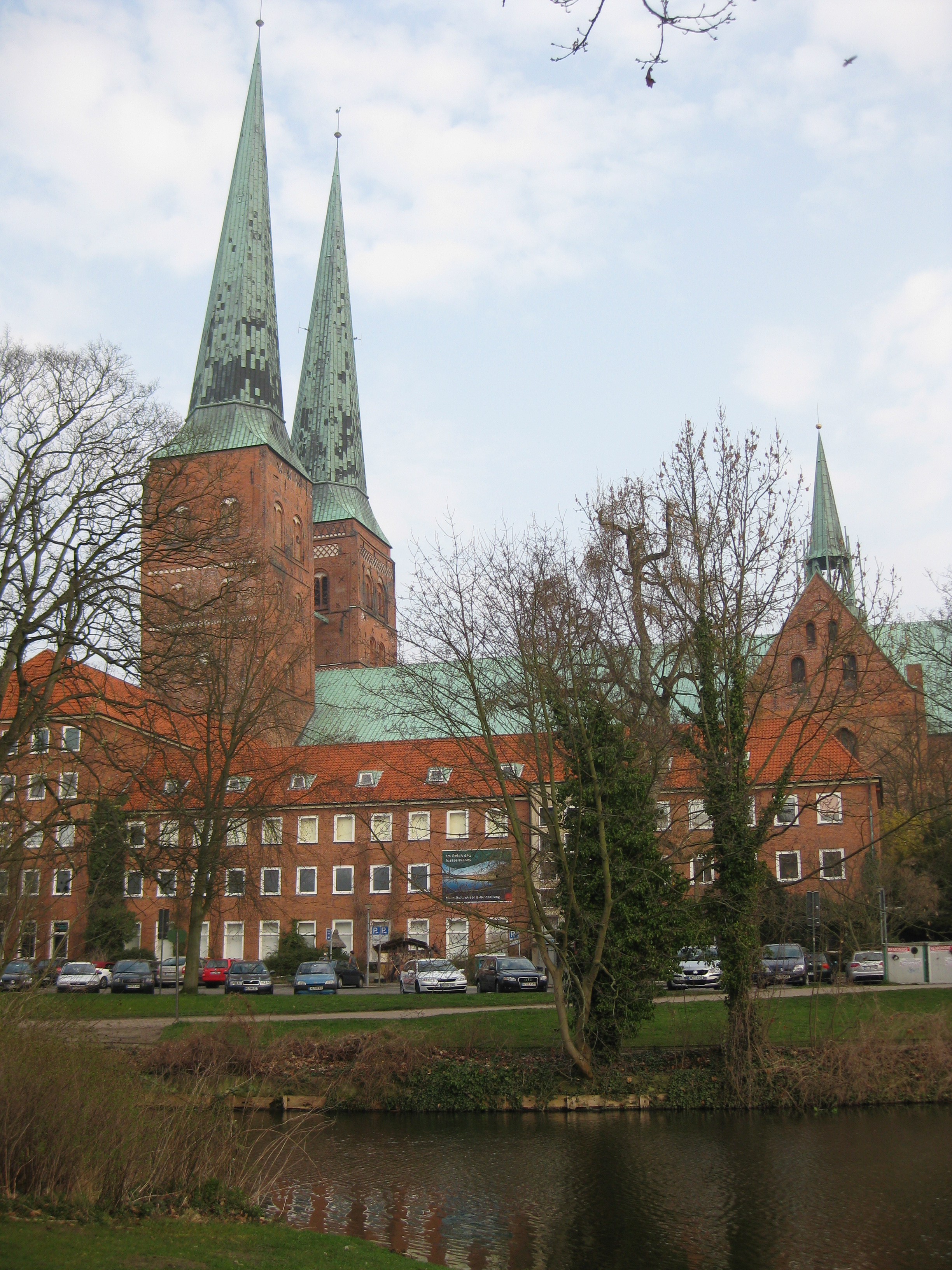 Museum für Natur und Umwelt Lübeck am Lübecker Dom (von Süden)